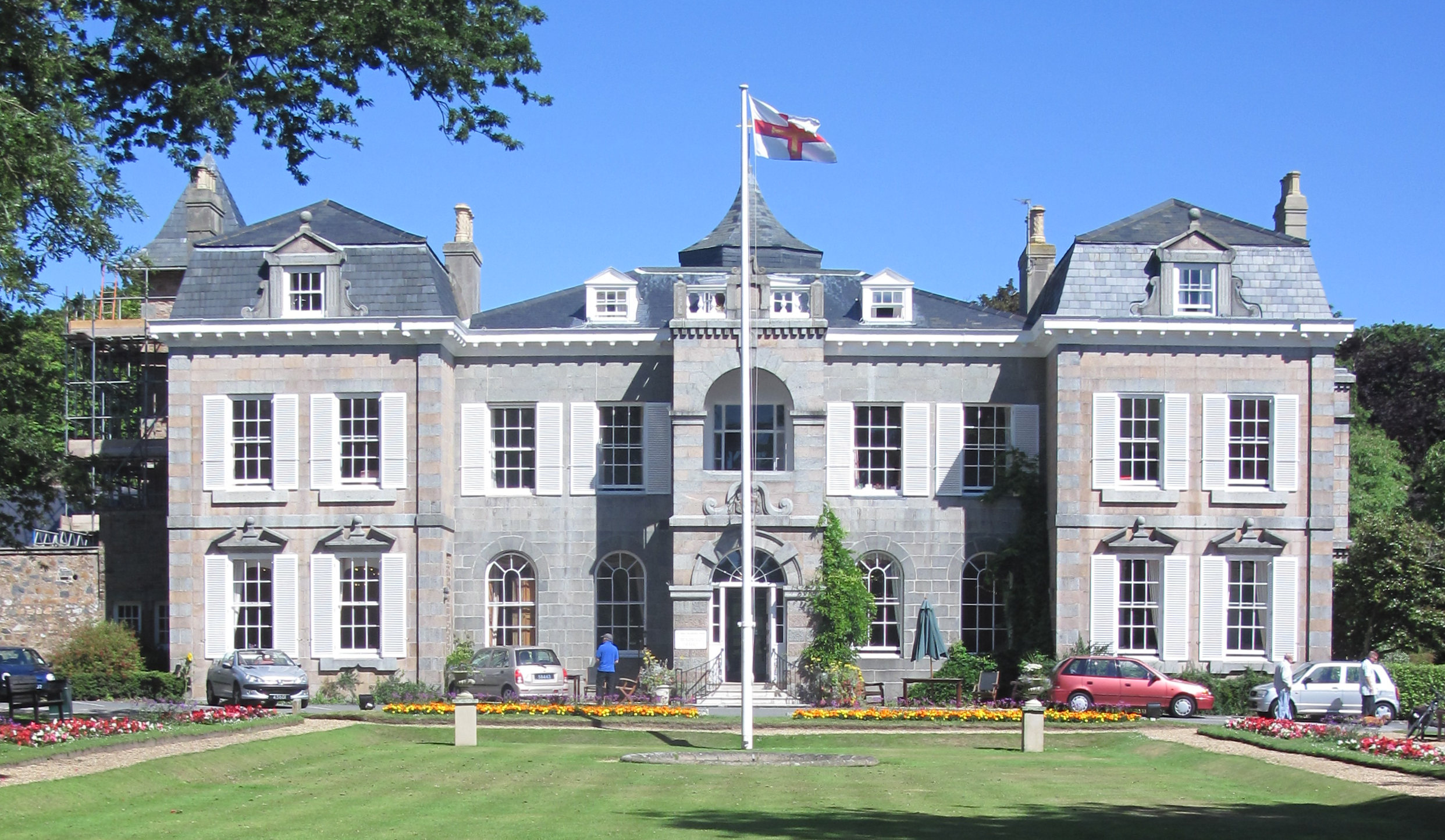 In Guernsey, 4 July 2010: Saumarez Park Manor, today used as a nursing home